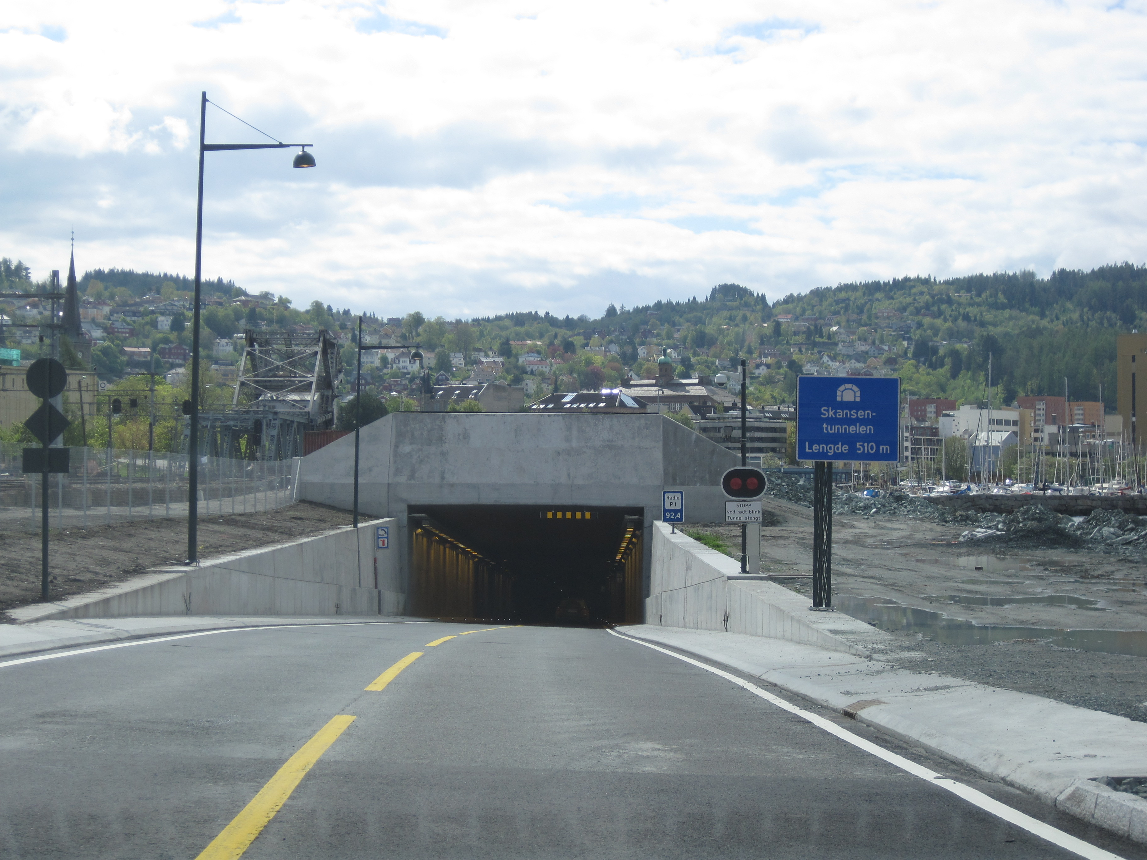 Entrance to Skansen undersea road tunnel in Trondheim, Norway.